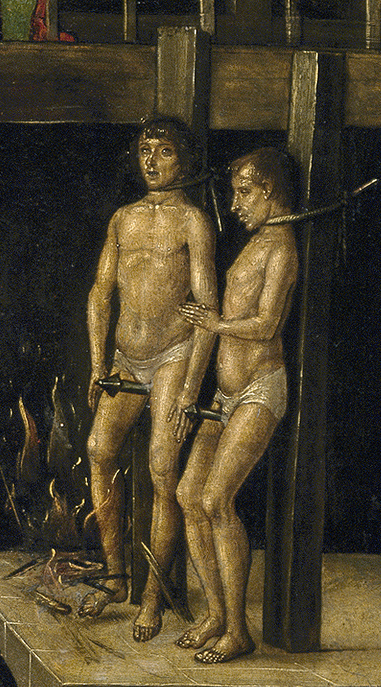 Saint Dominic presiding over an Auto-da-fe. From the sacristy of the Santo Tomás church in Ávila.